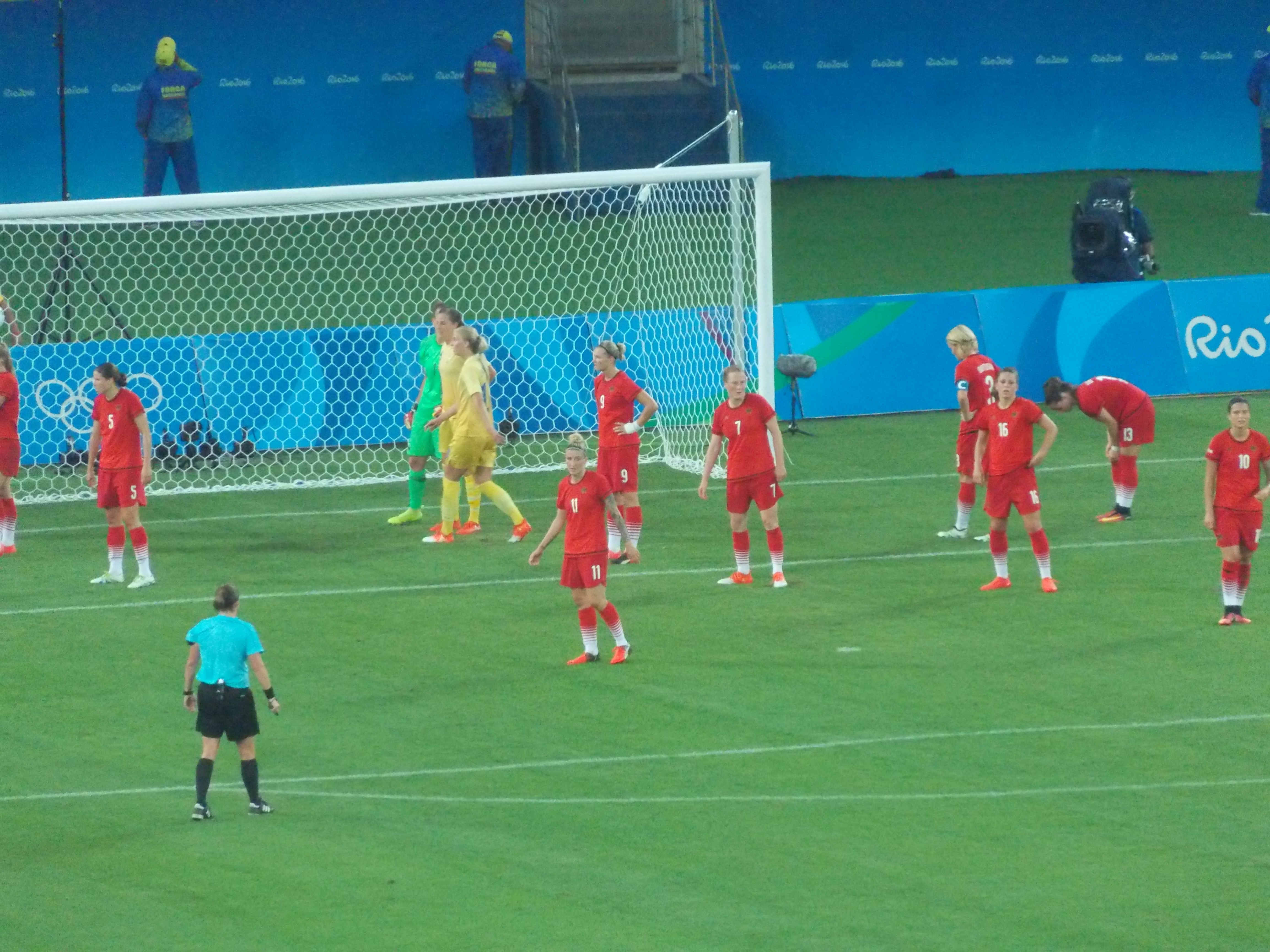 Football at the 2016 Summer Olympics – Women's tournament – Gold medal match.